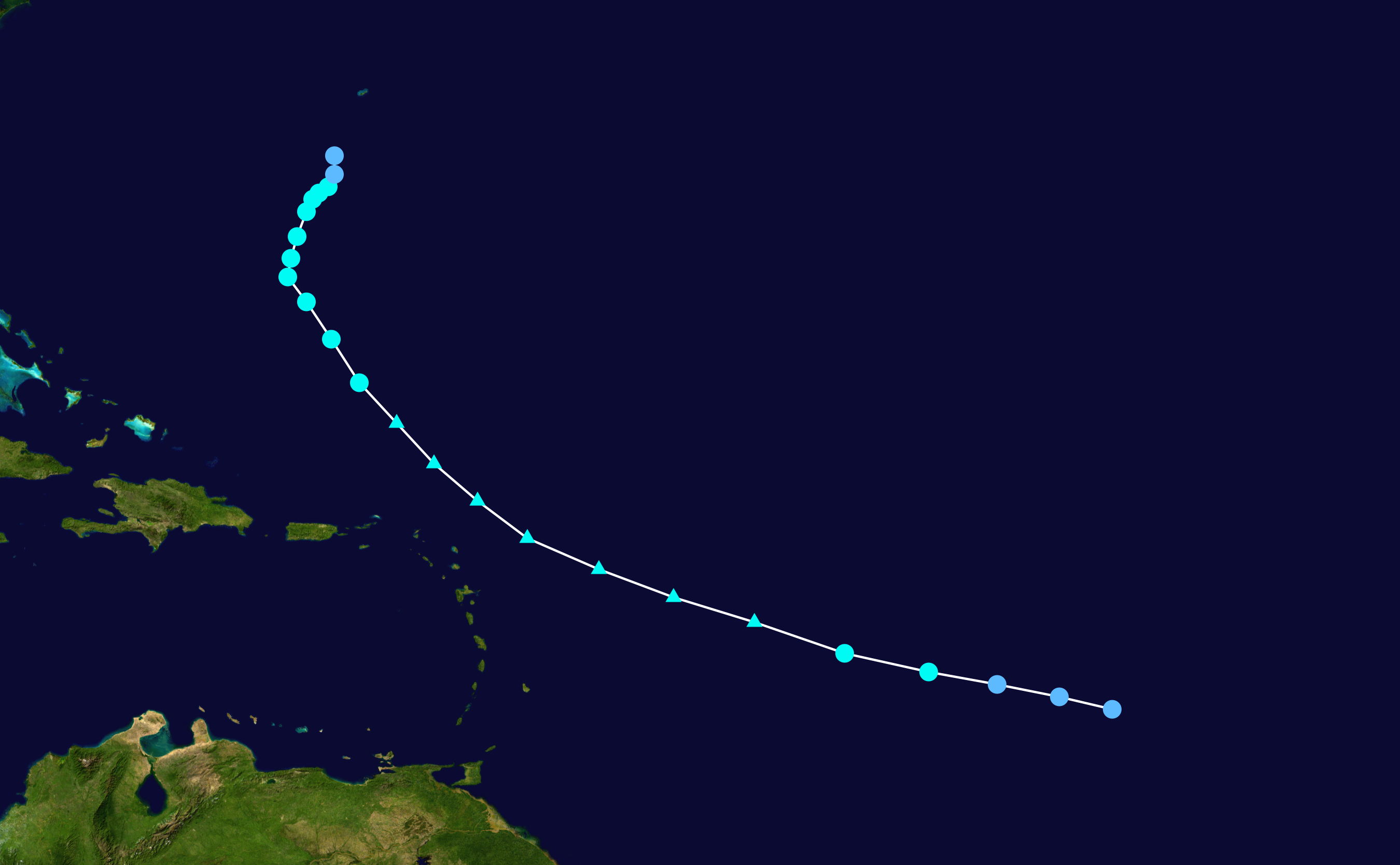 Track map of Tropical Storm Colin of the 2010 Atlantic hurricane season. The points show the location of the storm at 6-hour intervals. The colour represents the storm's maximum sustained wind speeds as classified in the Saffir–Simpson scale (see below), and the shape of the data points represent the nature of the storm, according to the legend below. Saffir–Simpson scale Tropical depression≤38 mph≤62 km/h Category 3111–129 mph178–208 km/h Tropical storm39–73 mph63–118 km/h Category 4130–156 mph209–251 km/h Category 174–95 mph119–153 km/h Category 5≥157 mph≥252 km/h Category 296–110 mph154–177 km/h Unknown Storm type Tropical cyclone Subtropical cyclone Extratropical cyclone / Remnant low / Tropical disturbance / Monsoon depression